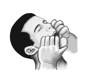 illustration depicting a person fish-hooking another person